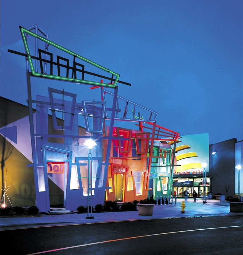 Crab Entry at the Ocean City Boardwalk Neighborhood 3.